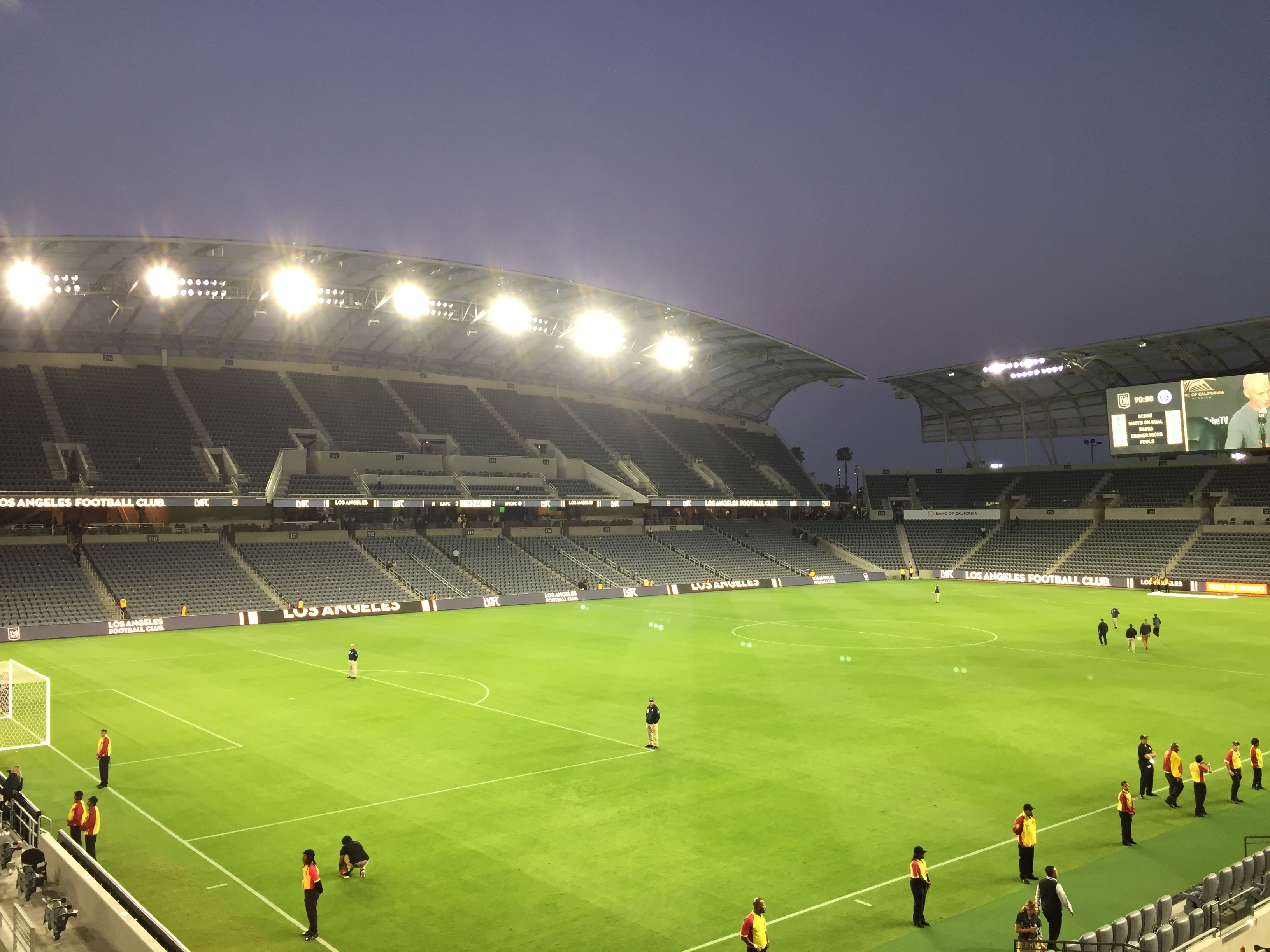 The east side of Banc of California stadium following the LAFC vs NYCFC match